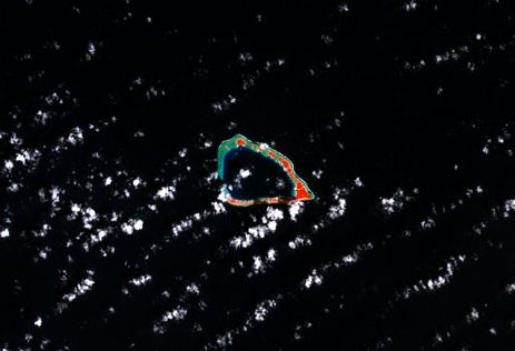 Lae Atoll